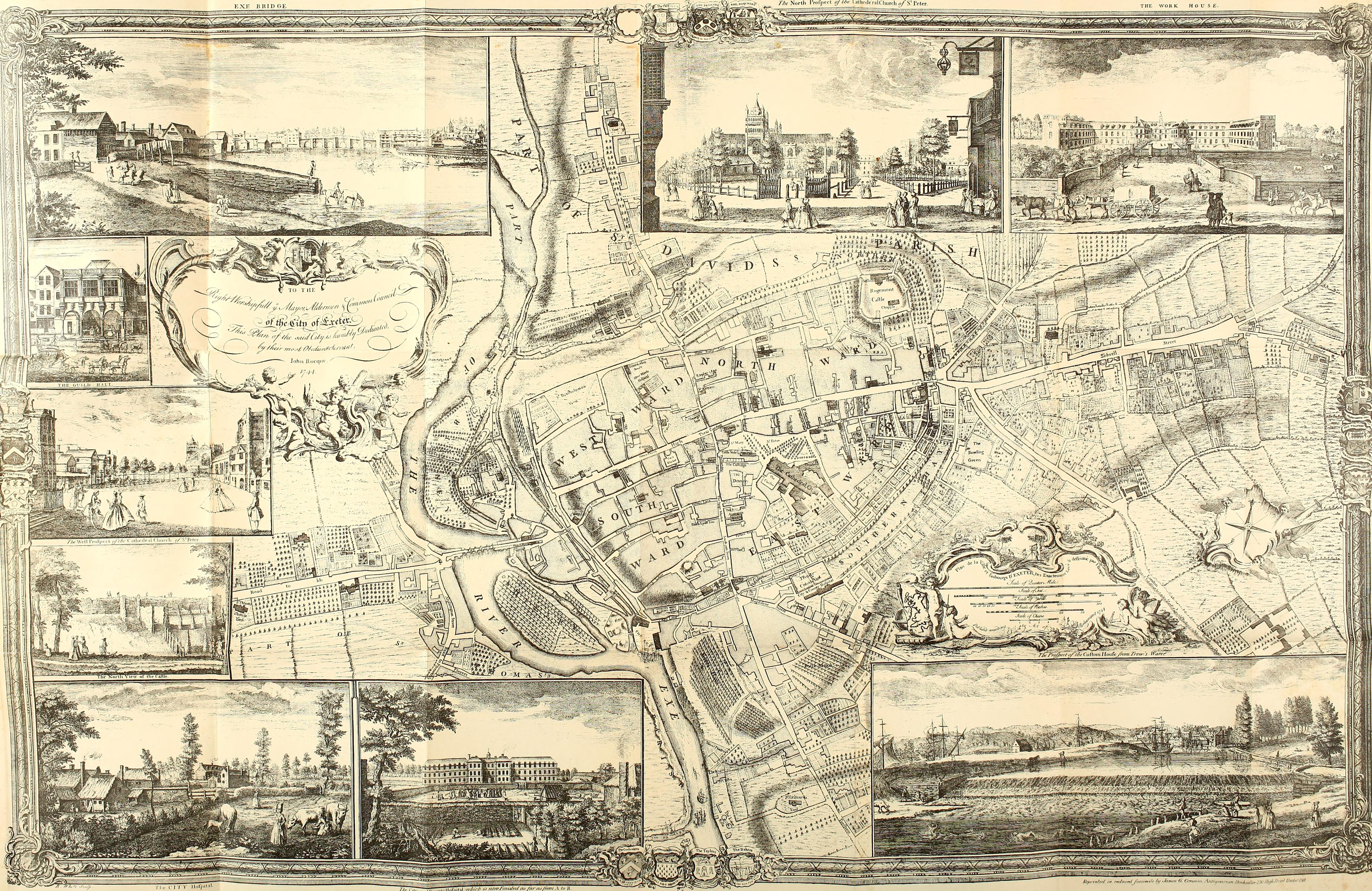 John Rocque's 1744 map of Exeter (A 1911 reprint "in reduced facsimile") Description from Internet Archive Book Images Identifier: devoncornwallnot06amer Title: Devon & Cornwall notes & queries Year: 1911 (1910s) Authors: Amery, John S Subjects: Publisher: Exeter, England : J.G. Commin View Book Page: Book Viewer About This Book: Catalog Entry View All Images: All Images From Book Click here to view book online to see this illustration in context in a browseable online version of this book.